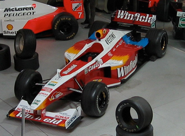 Williams FW21